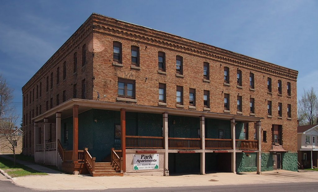 Hotel Glode (now Park Apartments), 222 Adams Avenue, Eveleth, Minnesota, USA. Viewed from the northwest.